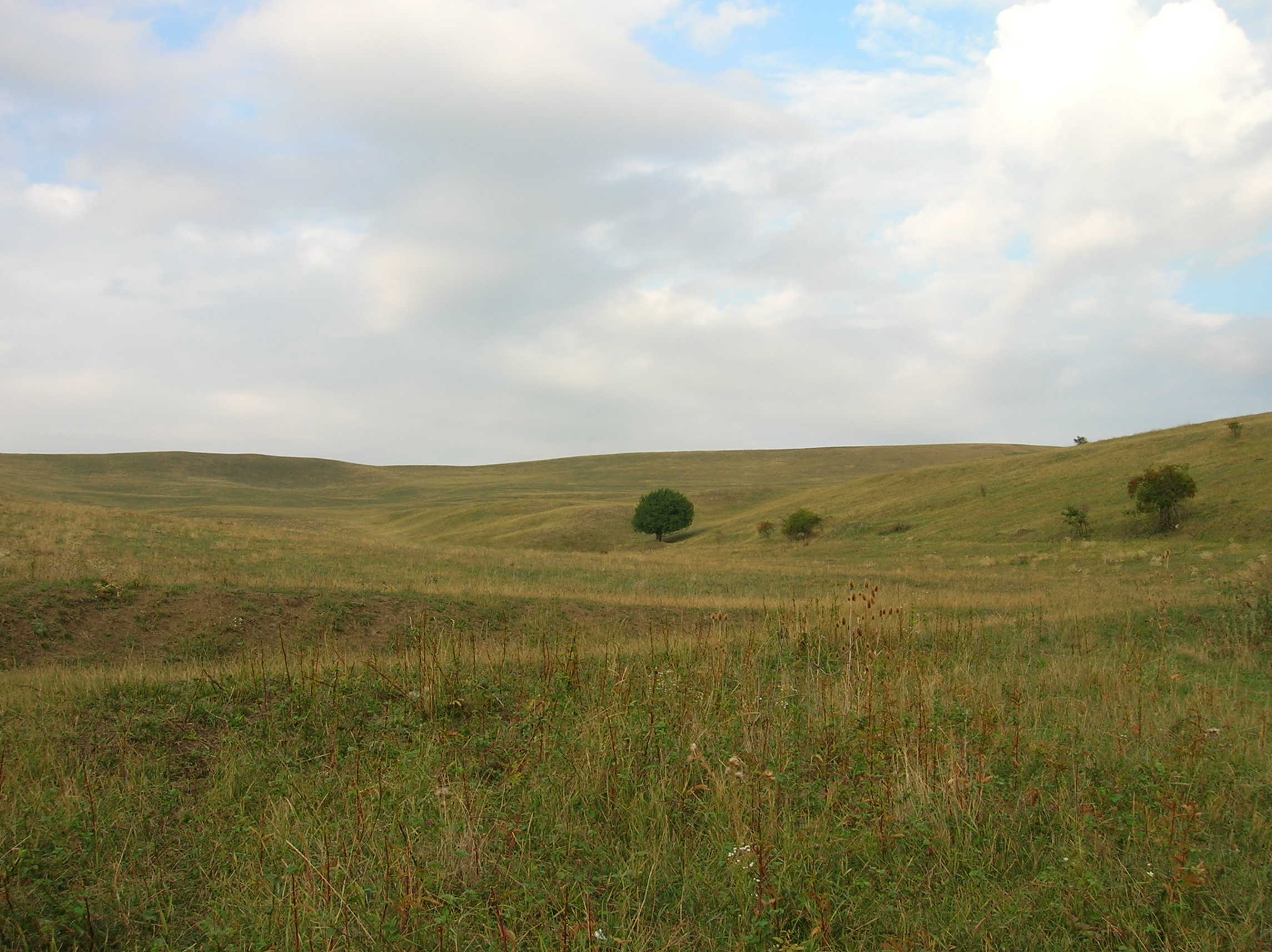 Dealul Vulpii-Boțoaia (Nature Reserve), Neamț county, Romania